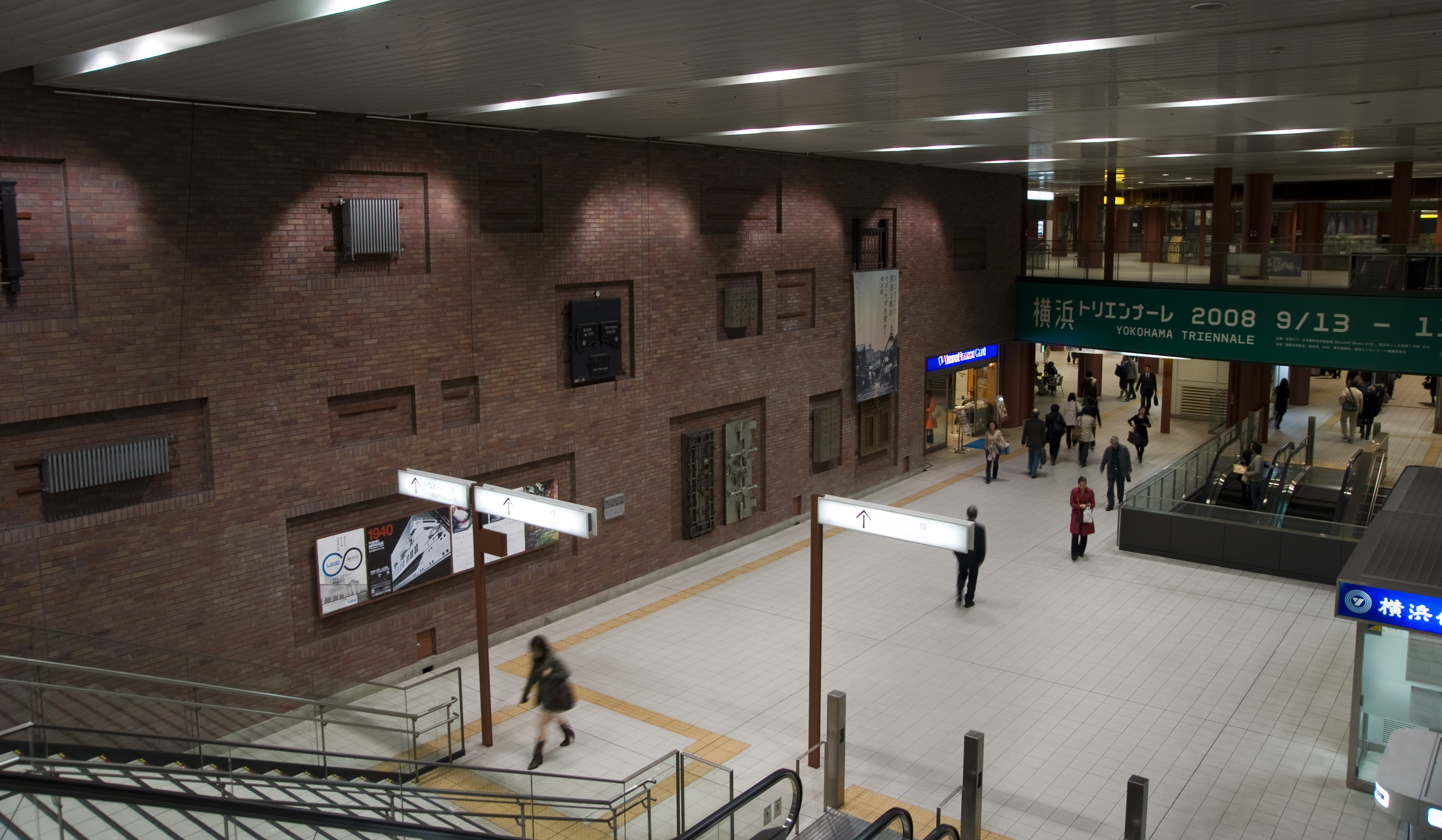 Bashamichi Station (Yokohama Minatomirai Railway)